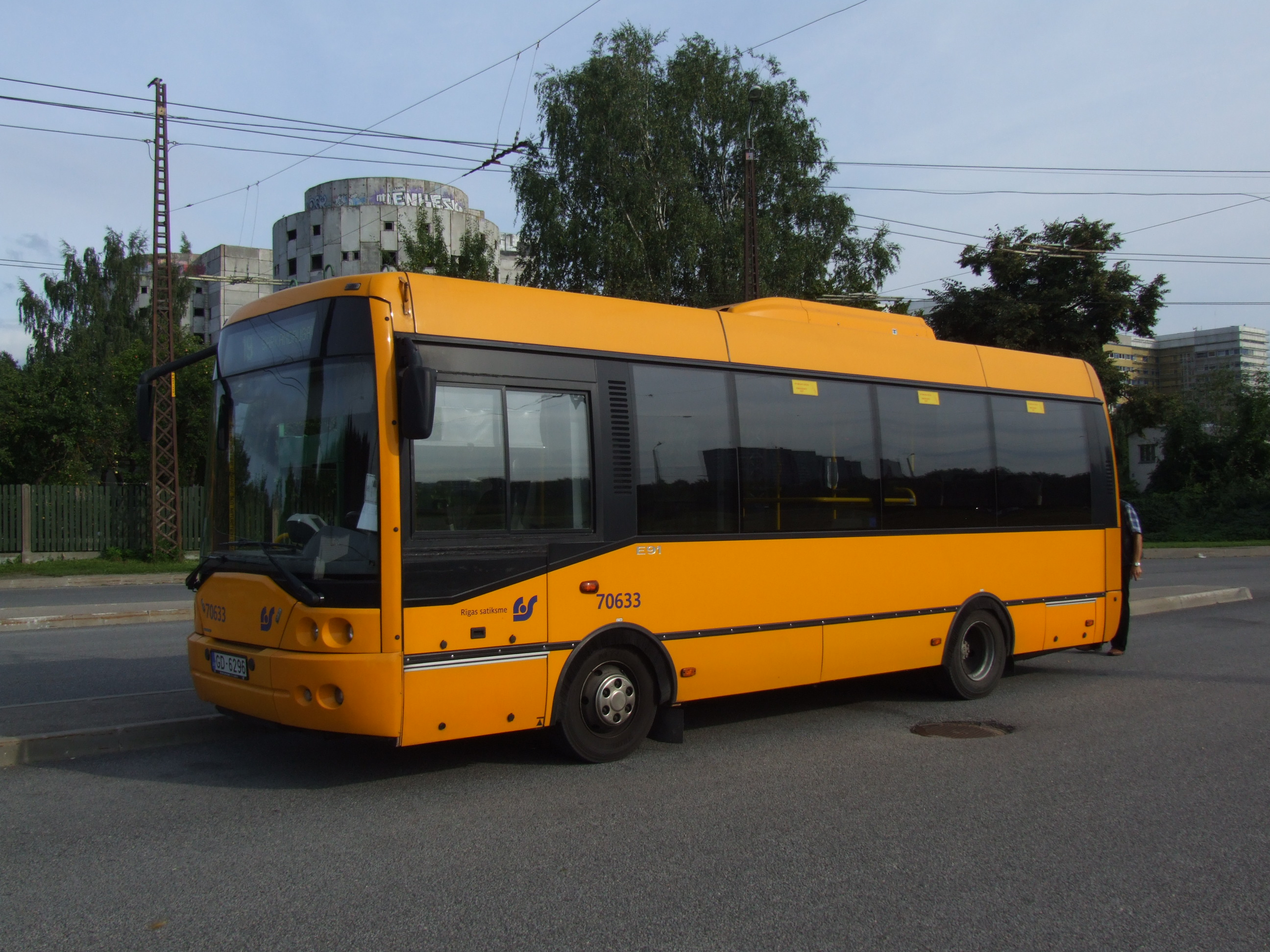 Ikarus E91 in Riga